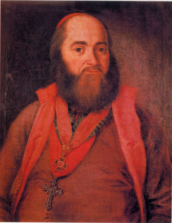 Mojsej Putnik, Serbian Orthodox Metropolitan of Karlovci from 1781 to 1790